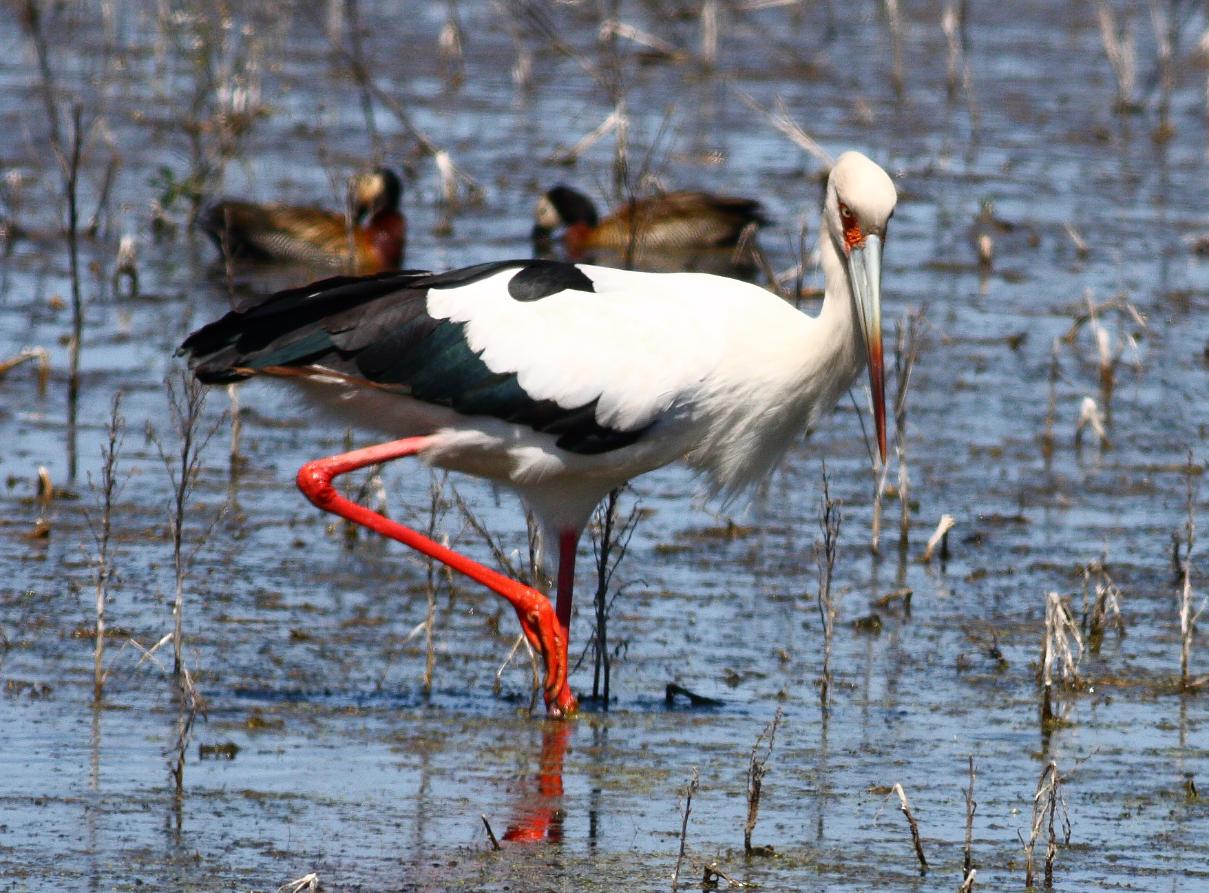 Ciconia maguari, a typical visitor of the Argentinian Wetlands. San Miguel del Monte, Buenos Aires, Argentina.